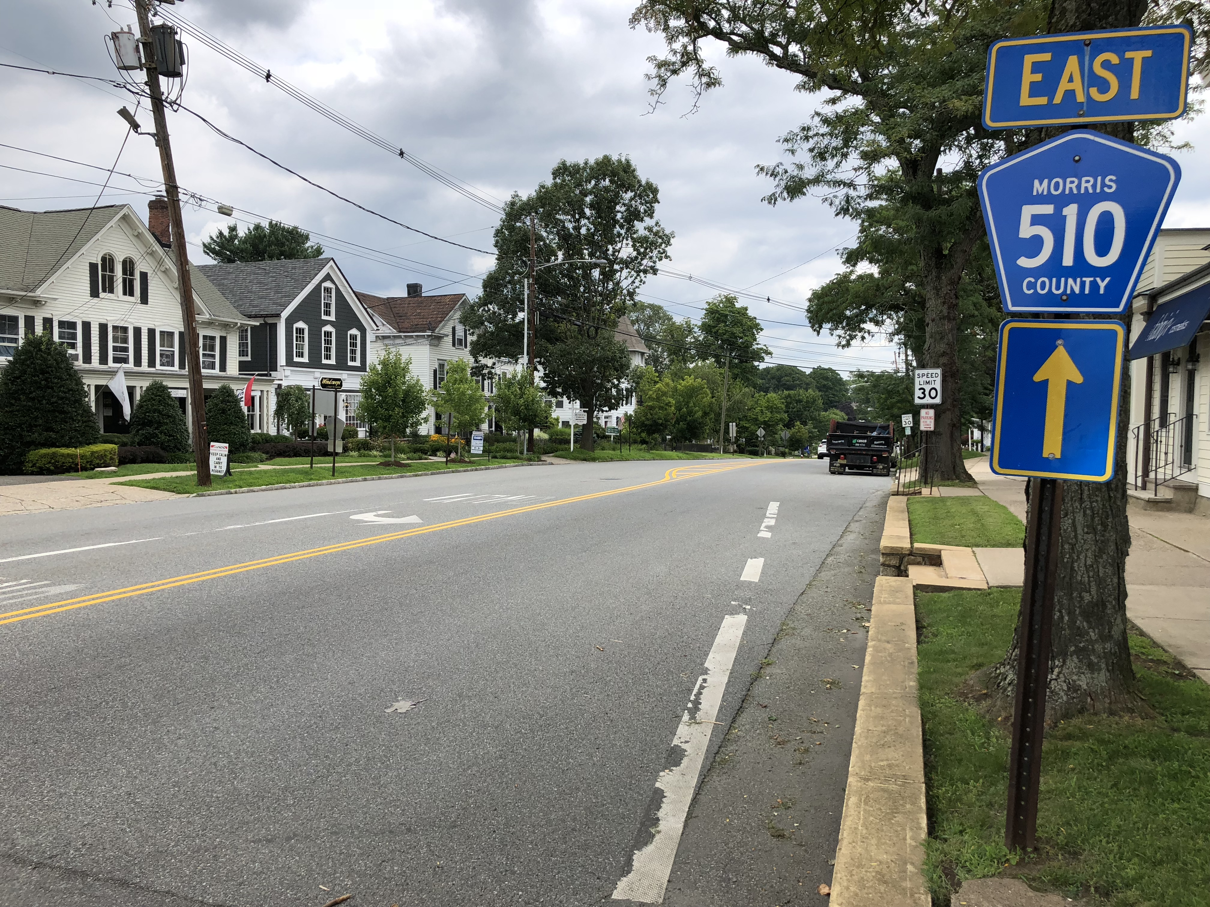 View east along Morris County Route 510 (Main Street) at Morris County Route 525 (Hilltop Road) and Morris County Route 614 (Mountain Avenue) in Mendham, Morris County, New Jersey